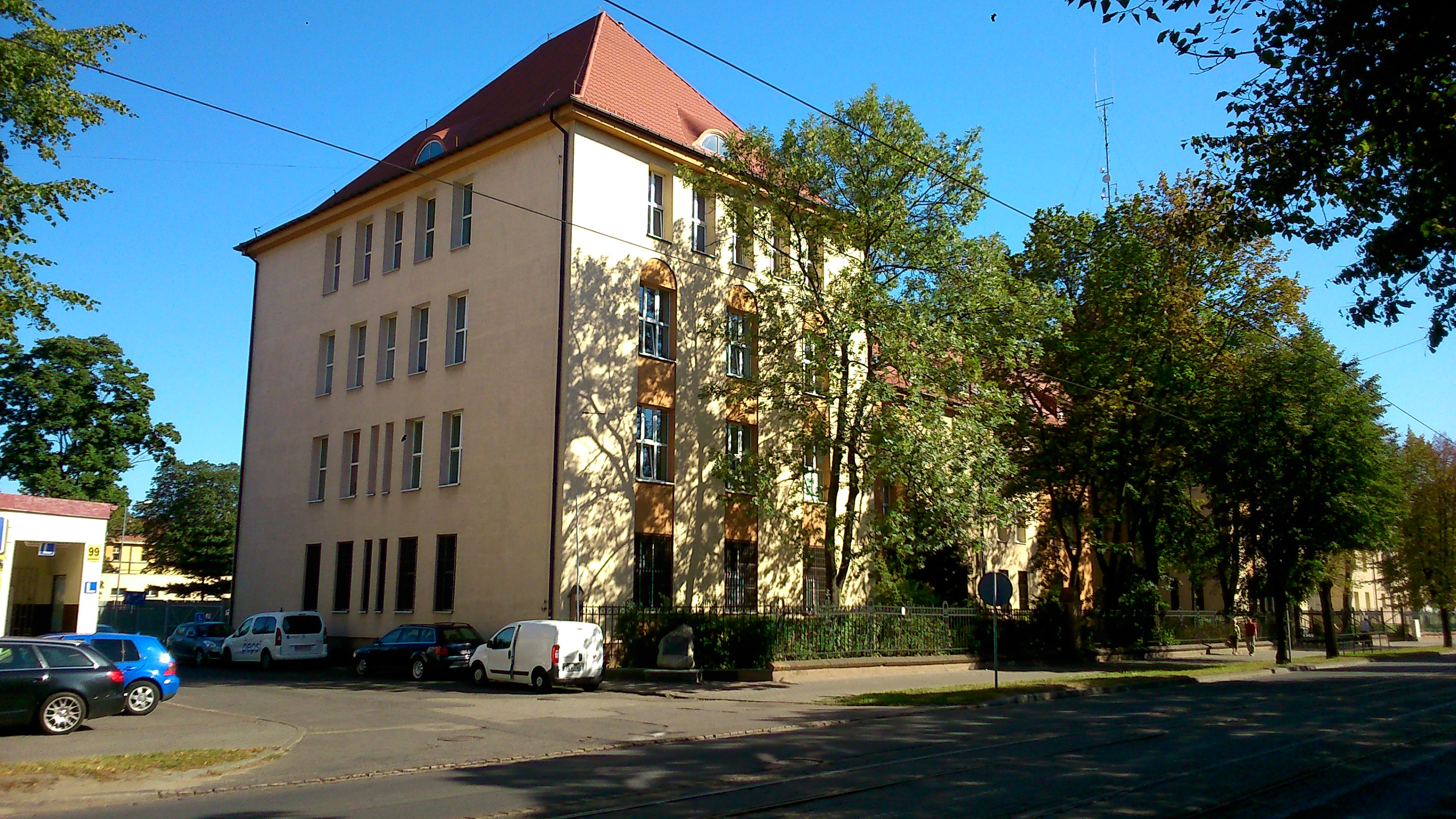 Former barracks of Cavallery School, (1926-1939) and other army units. Presently Headquarters of Police.